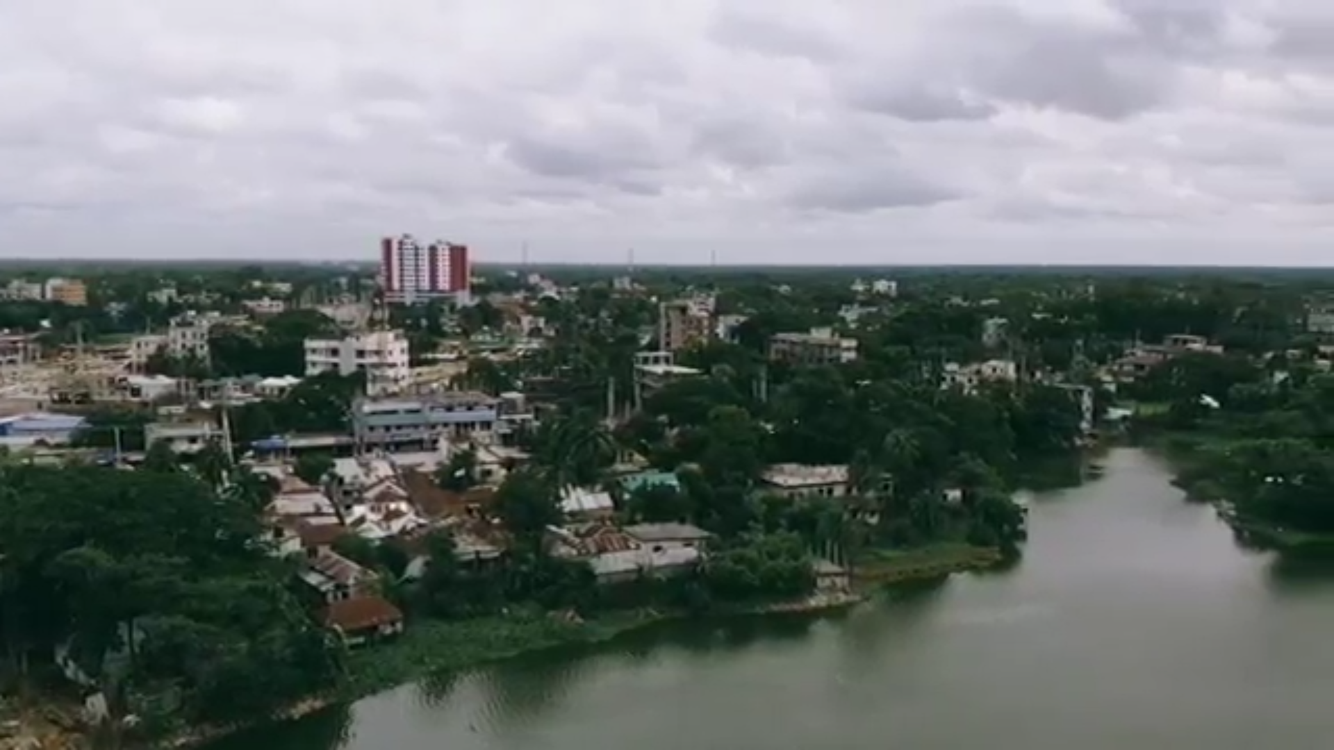 The file represents industrial town bhaluka,Mymensingh